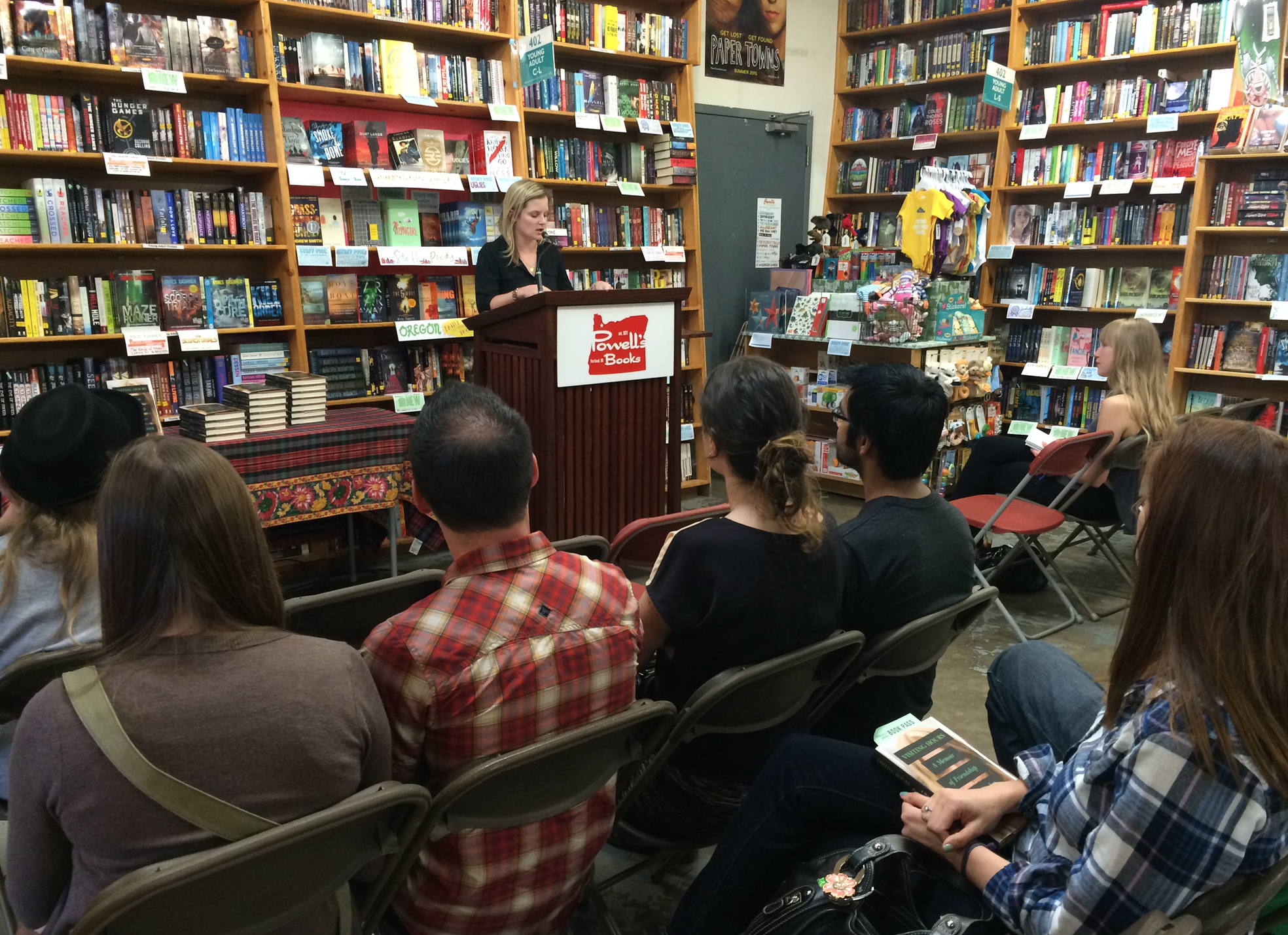 Amy Butcher reading at Powell's Books